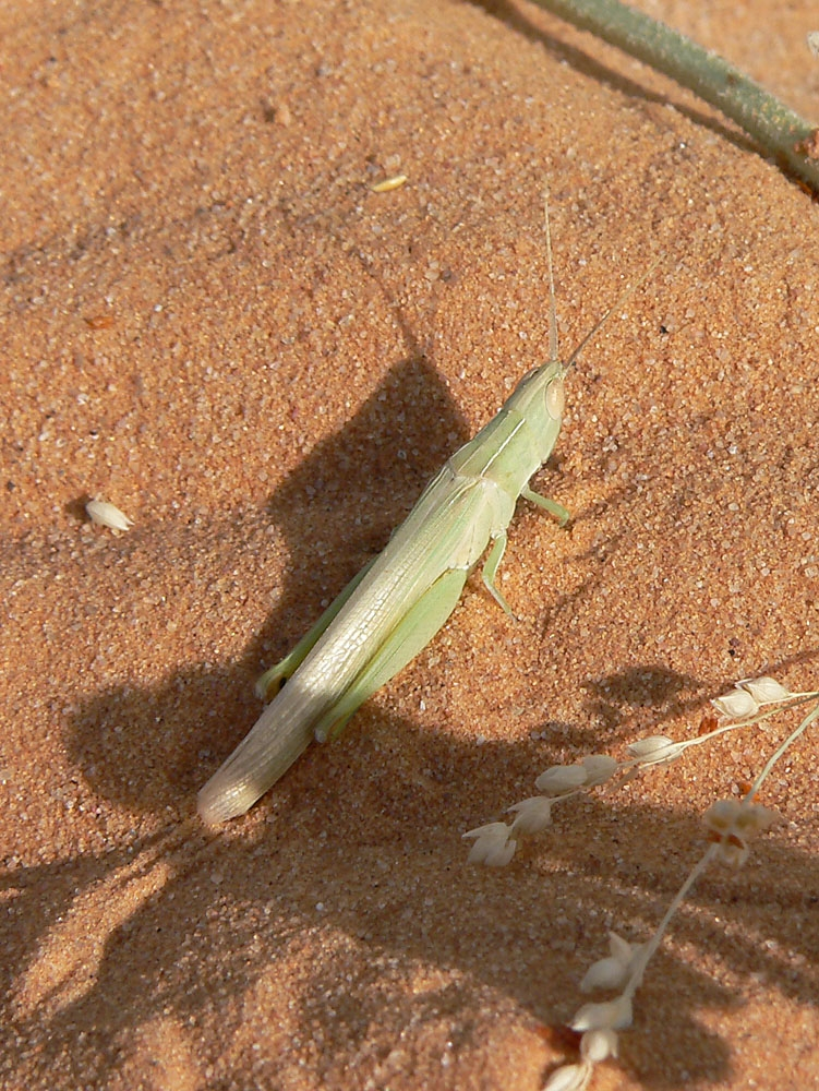 Female Ochrilidia geniculata near Benichab, Mauritania.